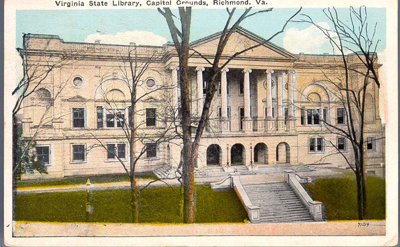 Postcard of the Old Virginia State Library (now the Oliver Hill Building), Richmond, Virginia; postmarked 1928.